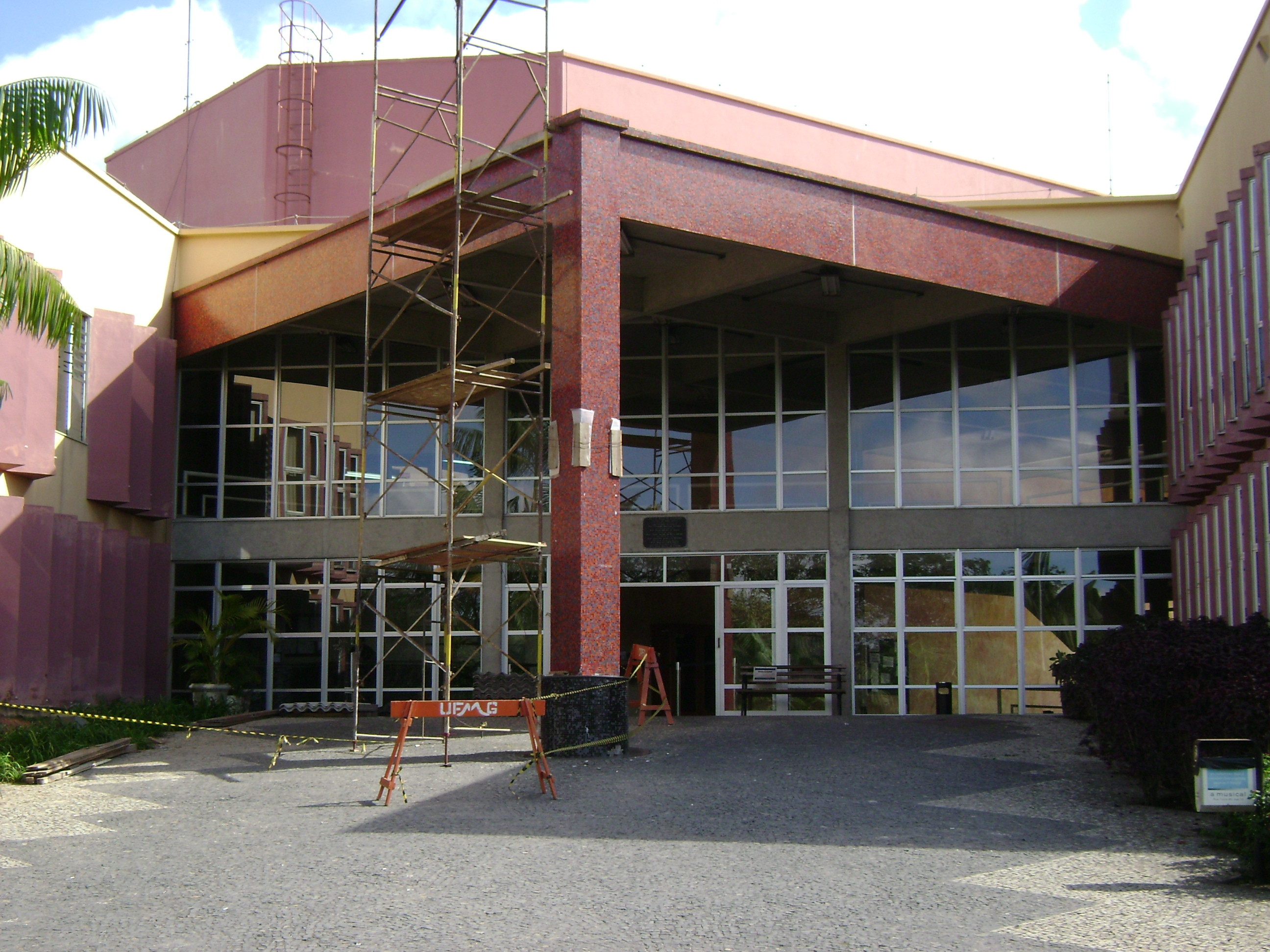 Fachada da Escola de Música da Universidade Federal de Minas Gerais.